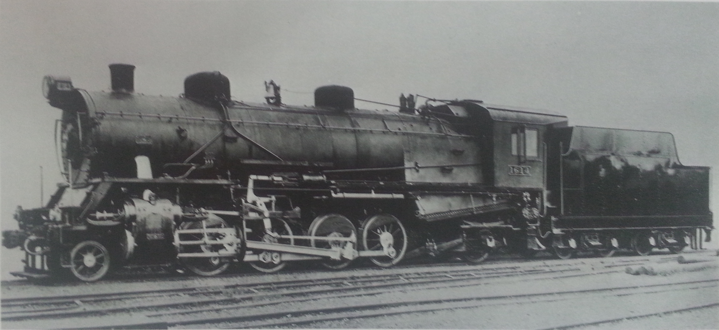 Builder's photo of South Manchuria Railway locomotive Mikani-1614.